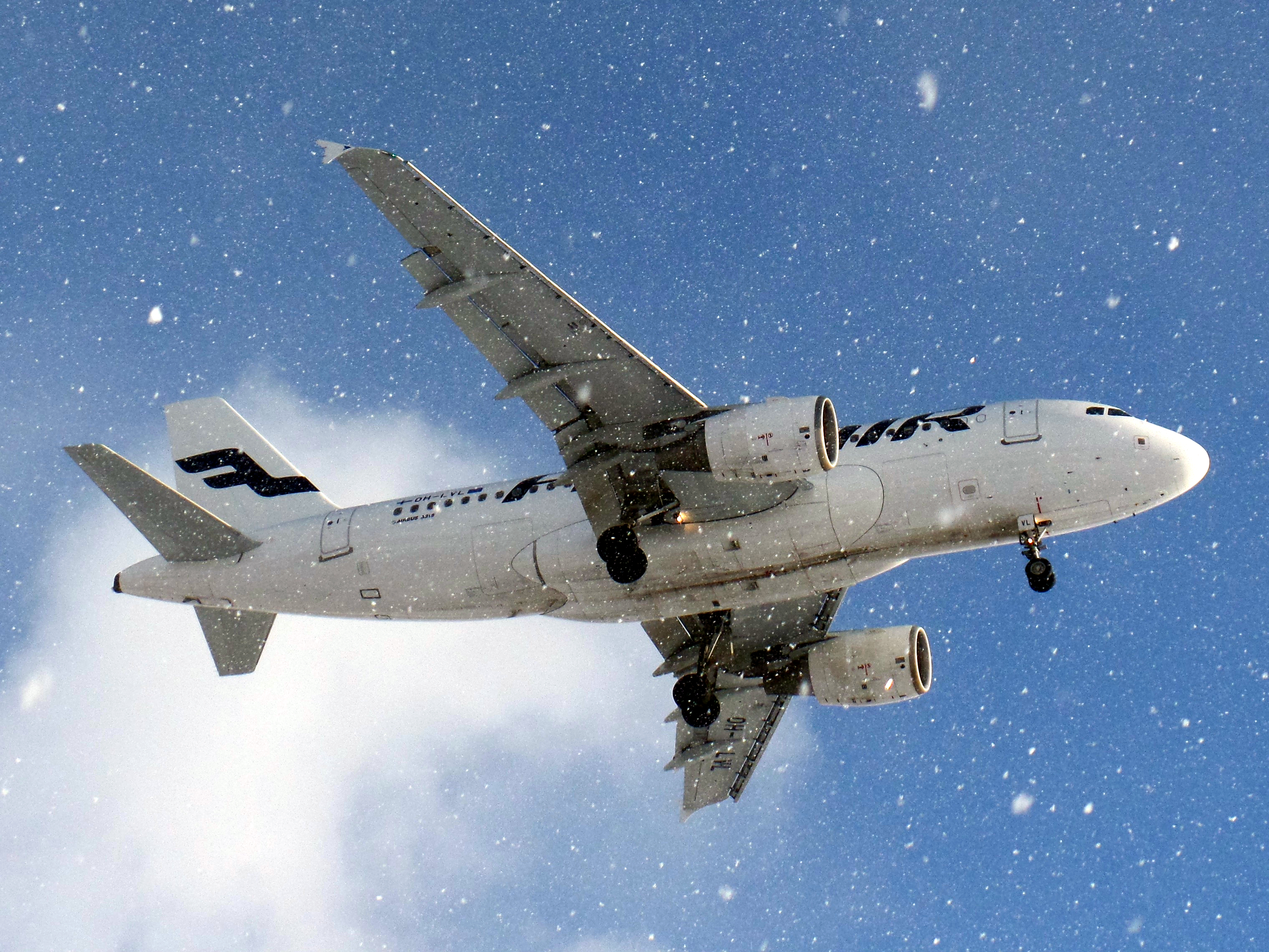 Finnair Airbus A319-112 OH-LVL landing at Helsinki-Vantaa Airport in snowfall conditions on 24 February 2017.